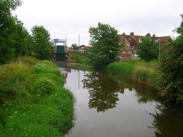 Tillingham Sluice On the northern side of the A259 road bridge and the highest point where the tides reach on the river. Taken from the railway bridge.